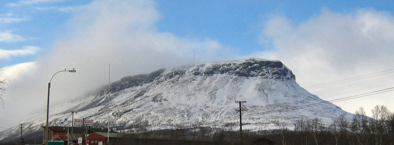 Saanatunturi, one of the biggest fells in Finland. Picture taken from village Kilpisjärvi.